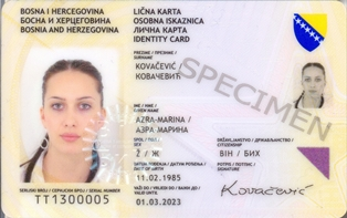 New biometric BH ID cards